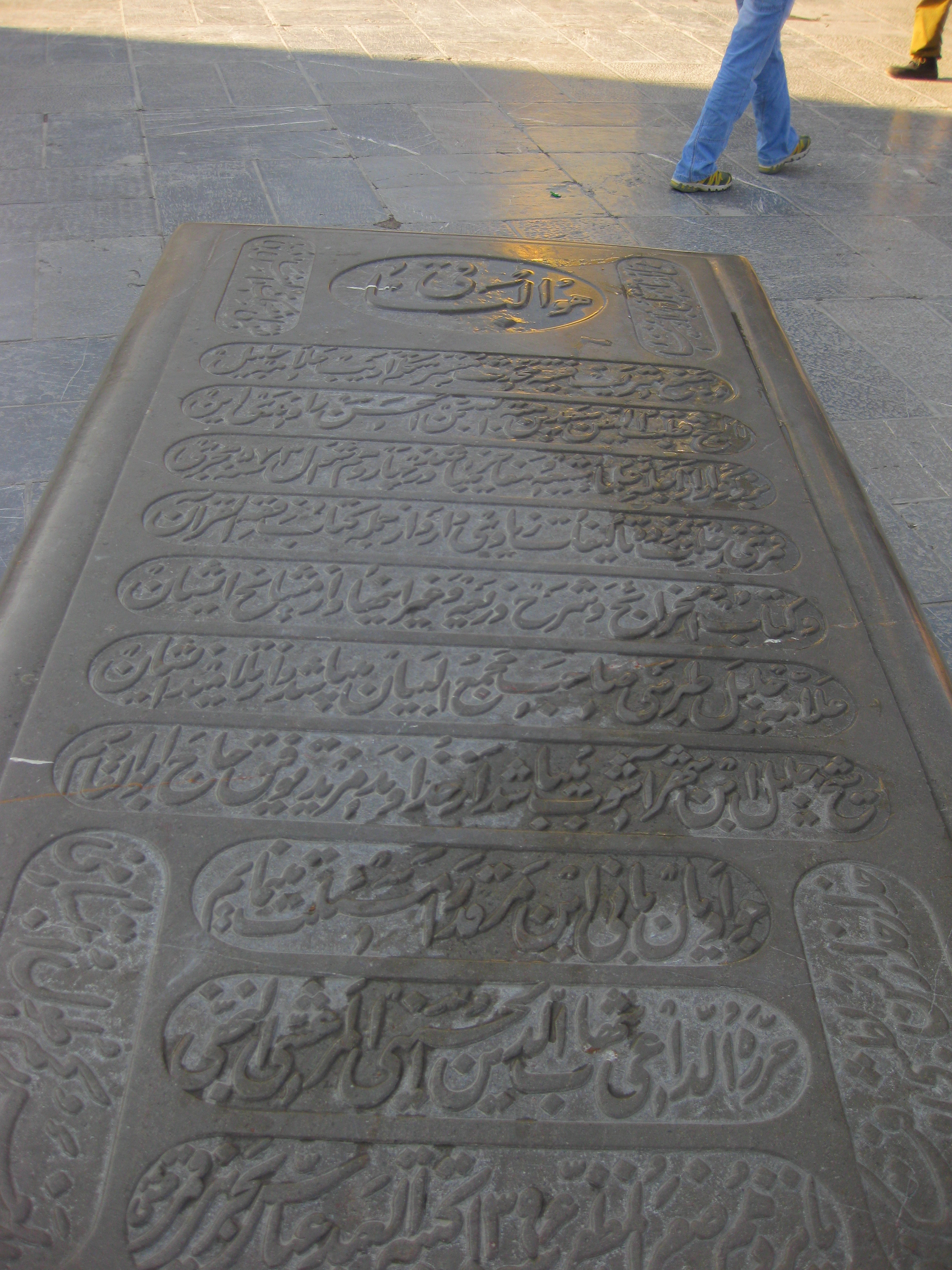 Tomb of Sheikh Ghotbeddin; Near the Shrine of Fatimah Ma'sūmah, Qom, Iran.